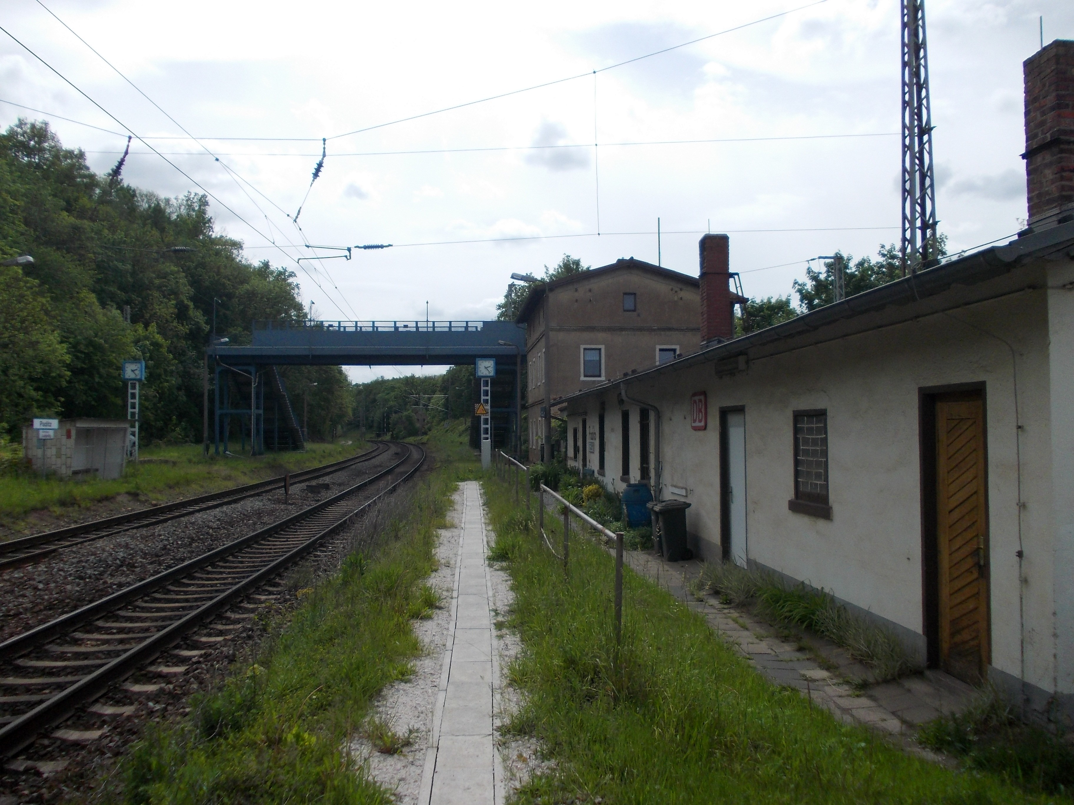 Paditz train station (Altenburg, Thuringia)